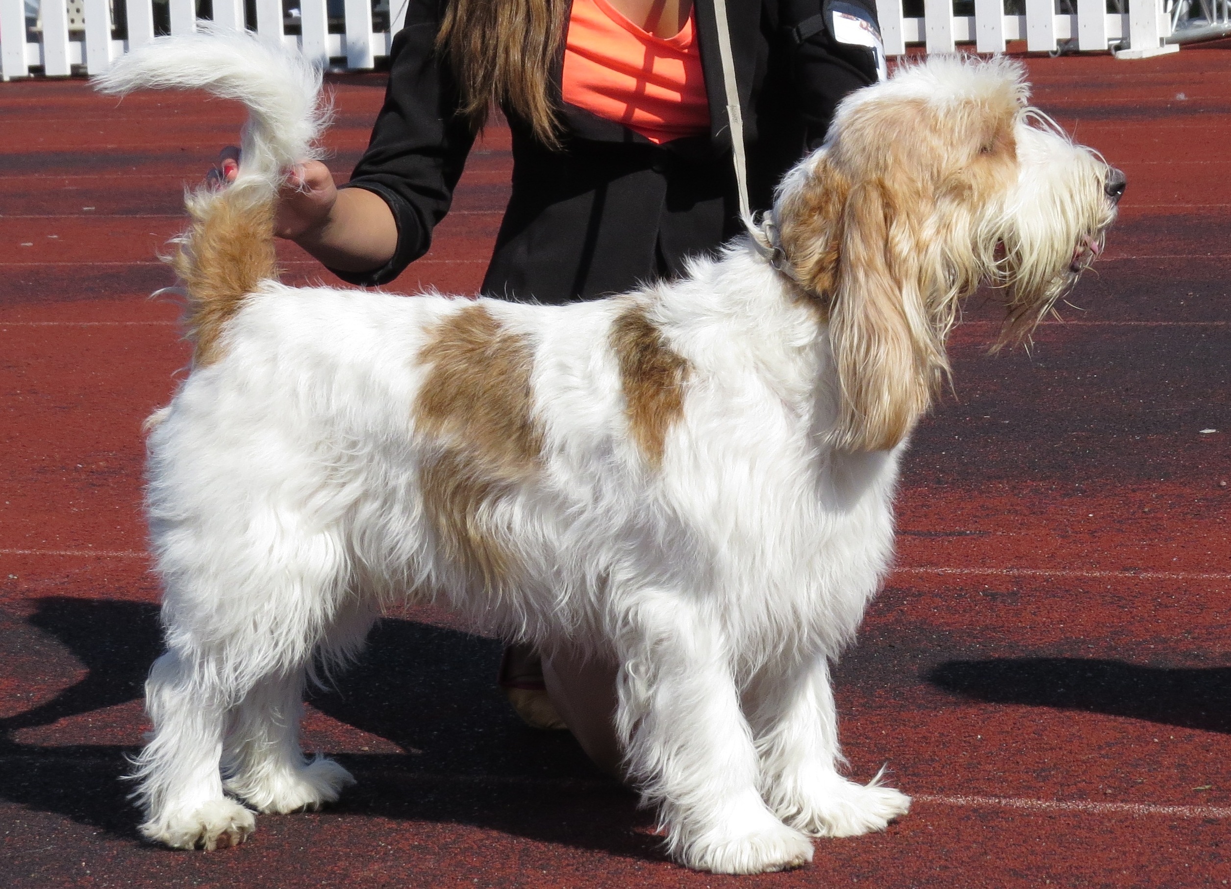 Grand Basset Griffon Vendéen in Tallinn duo CACIB, 17-18 Aug 2013, handler competition